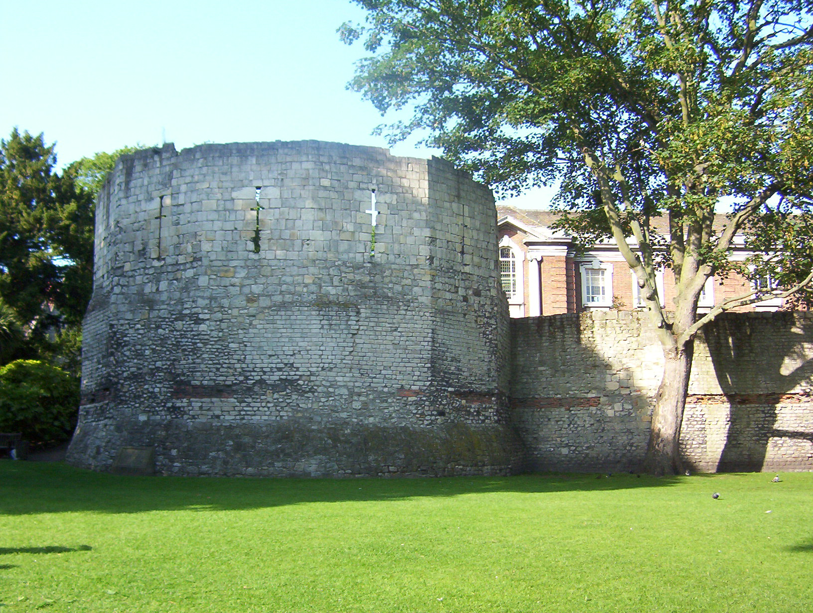 author:Kaly99 The Roman Fortifications showing wall and Multangular Tower in Museum Gardens York.